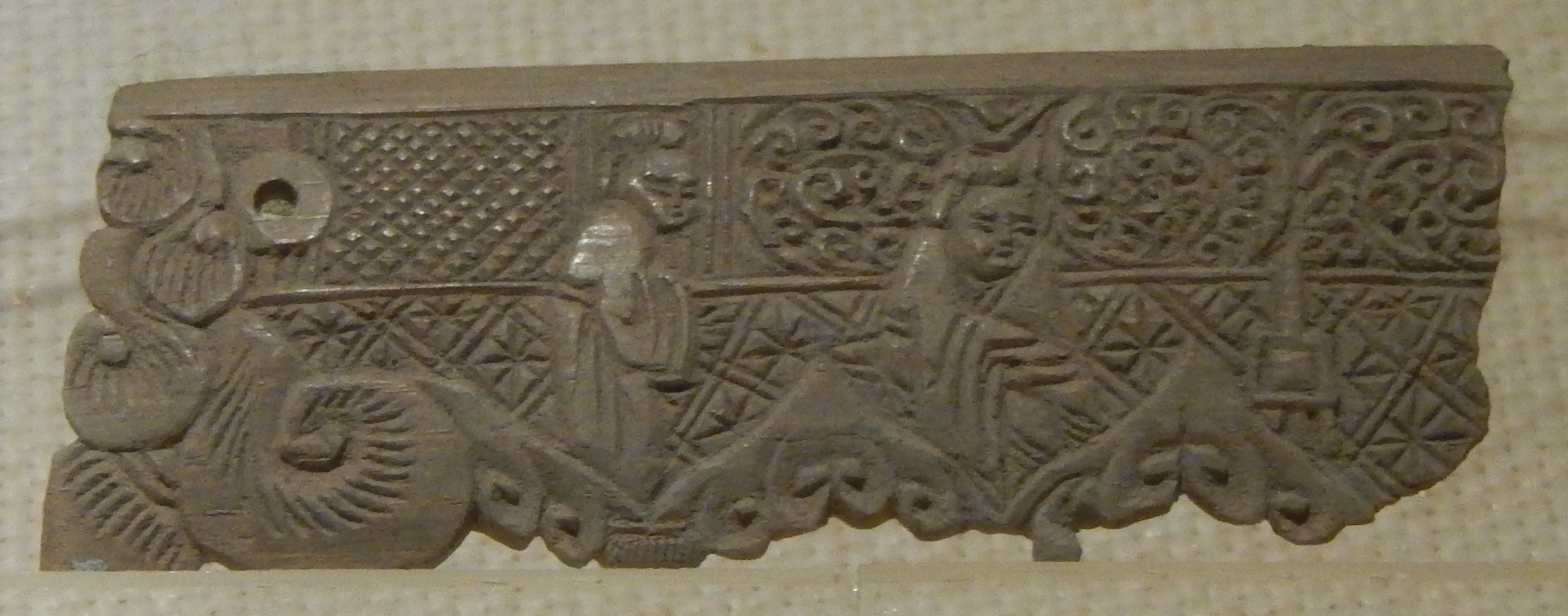 Piece of carved bamboo found at Western Xia Tomb 6 in Ningxia. Held at Ningxia Museum, Yinchuan.